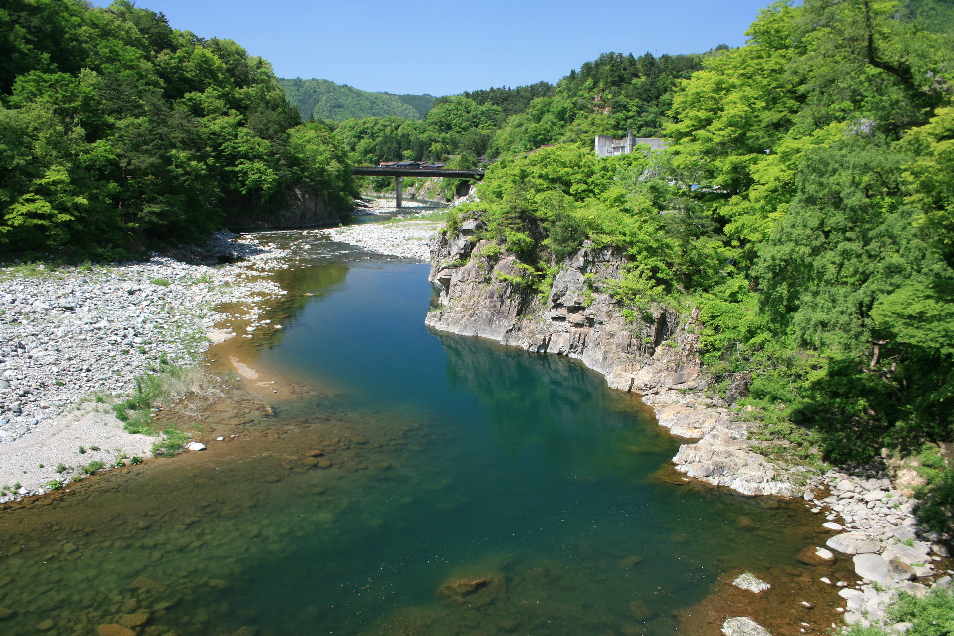 Shō River from Shirakawago